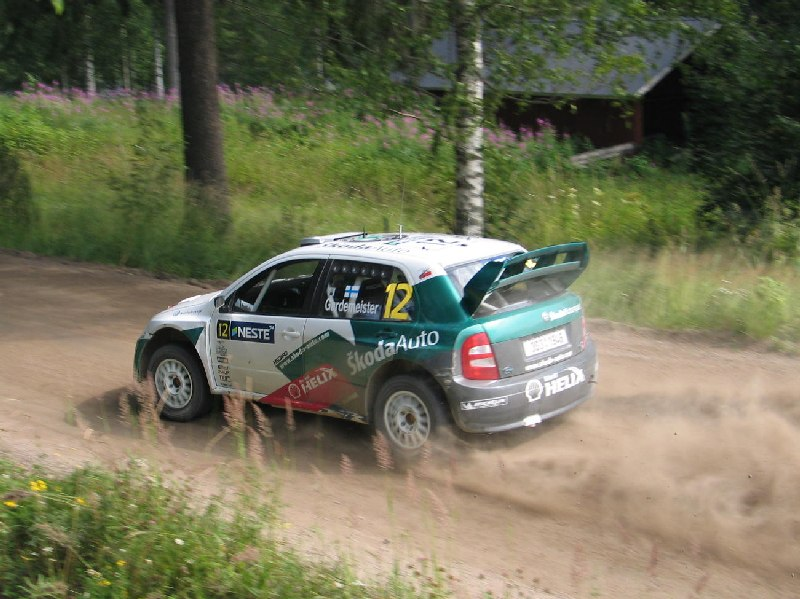 Toni Gardemeister driving his Škoda Fabia WRC at the 2004 Rally Finland.